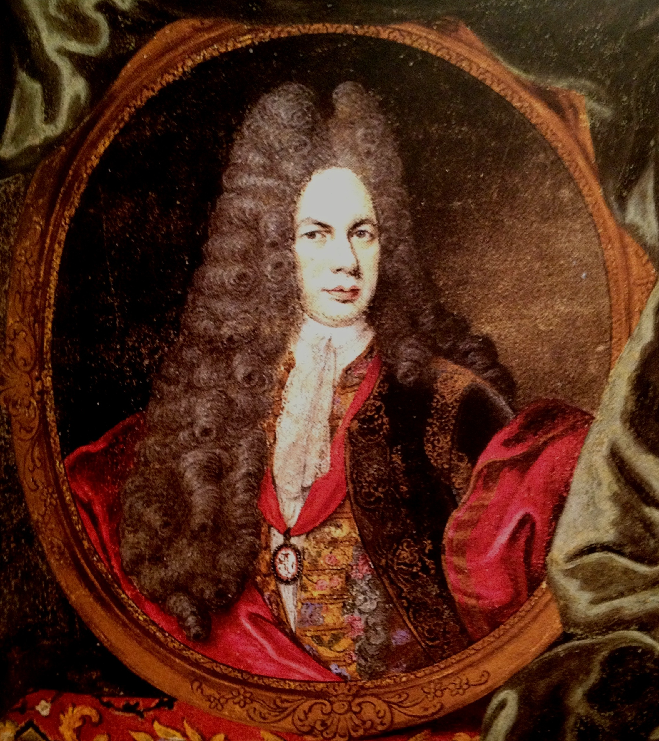 Minsitro